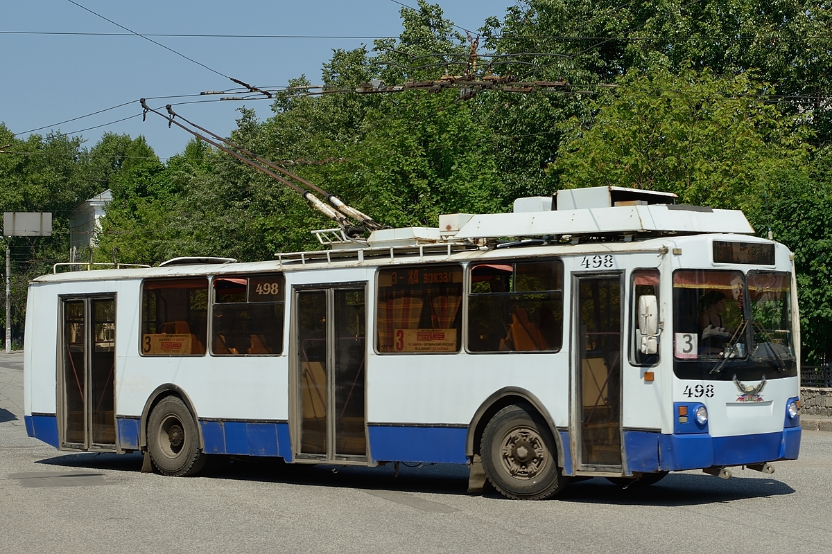 ZiU-682 KR Ivanovo in Kirov